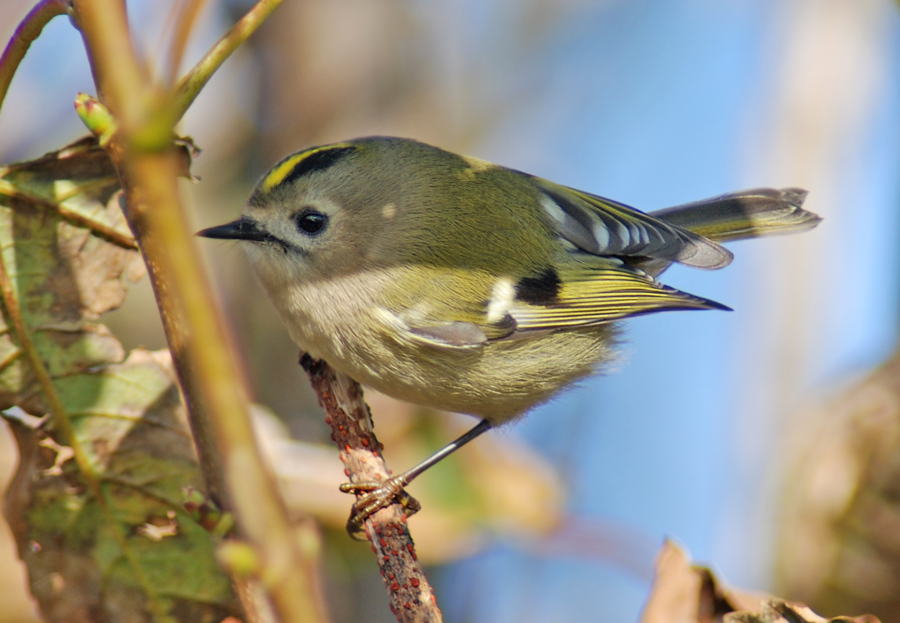 Goldcrest female currently migrating through Shetland. However, the orange of the male is often difficult to see when the bird is relaxed. It is an adult, but the eyering and ear coverts seem a bit dull, so maybe first winter bird.